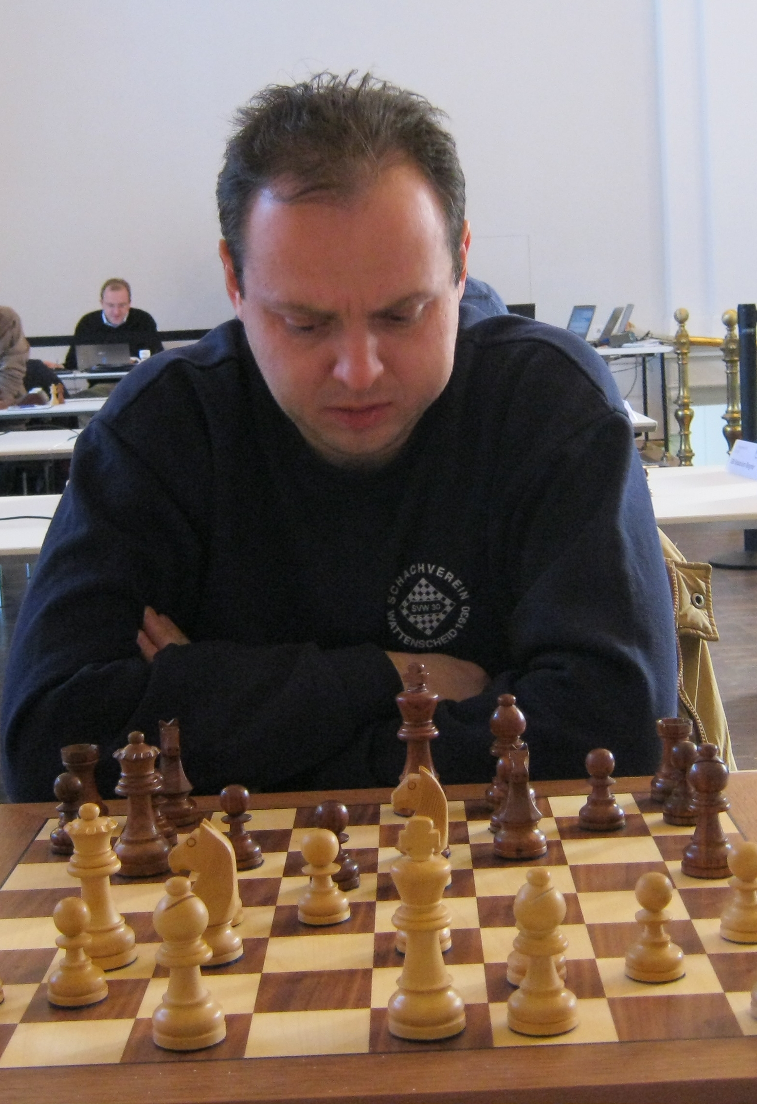 Evgeniy Najer, chess grandmaster from Russia